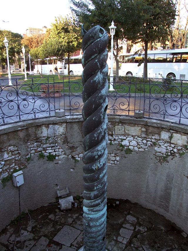 Istanbul hippodrome - Serpentine_Column (Tripod of Platea)